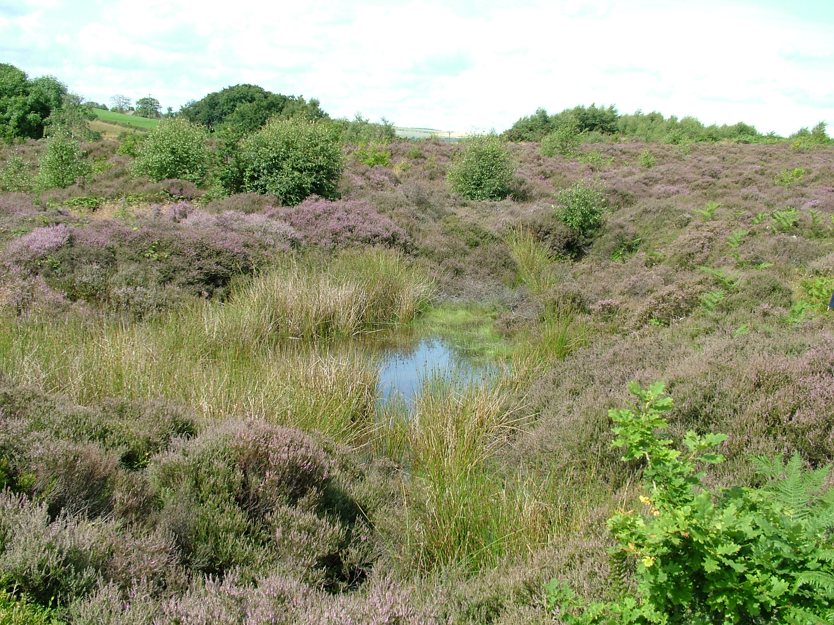 A view of Waldridge Fell, Co Durham, showing typical Calluna vulgaris vegetation surrounding a small rain-fed pond